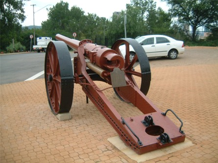 View from breech end of German 10.5 cm/40 SK L/40 naval gun from cruiser SMS Königsberg mounted on field carriage, as used in the East Africa campaign in World War I. Outside the Union Buildings, Pretoria, South Africa. See File:Königsberg gun Union Buildings Pretoria right front view.jpg for right front view of same gun.